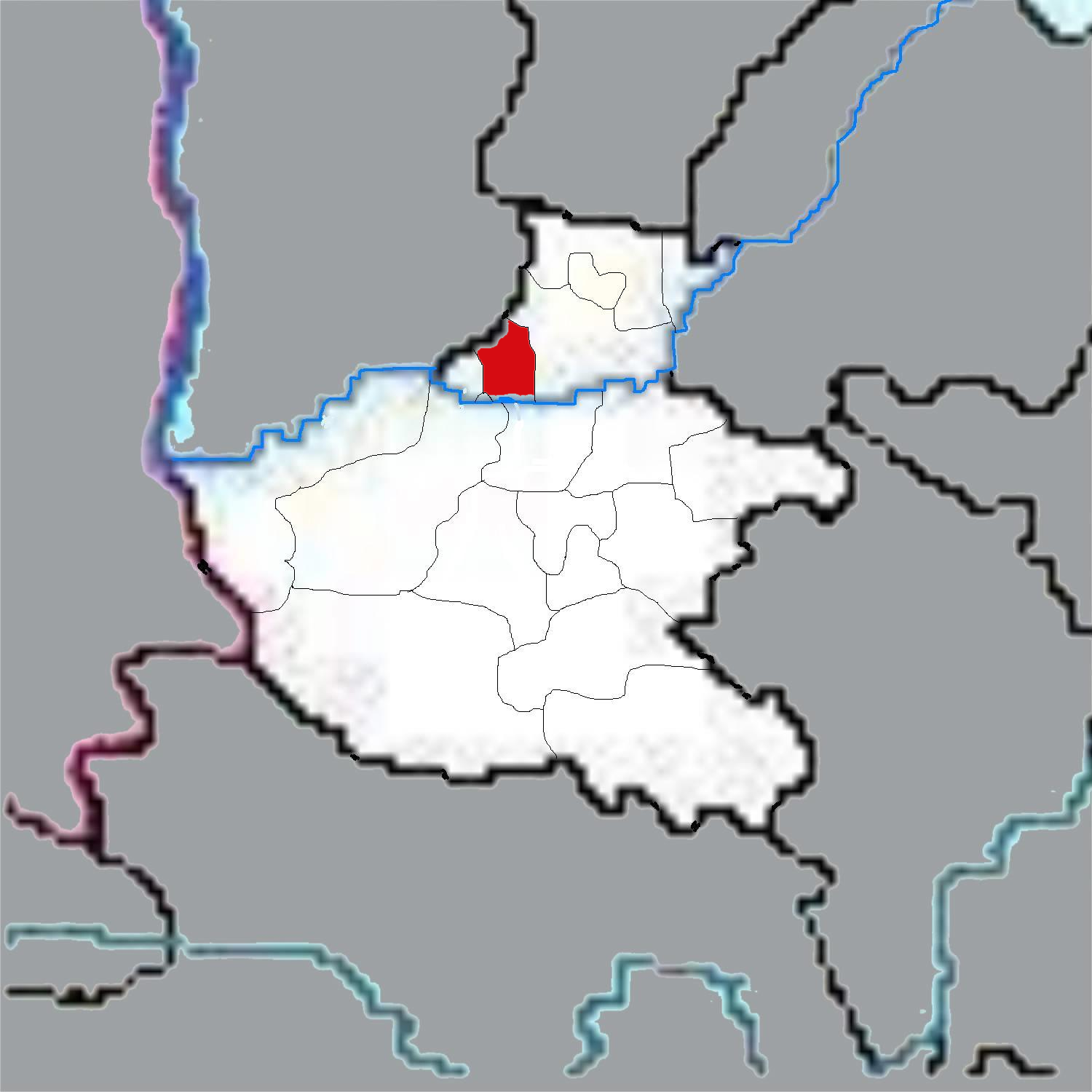 Maps of Henan Province of China